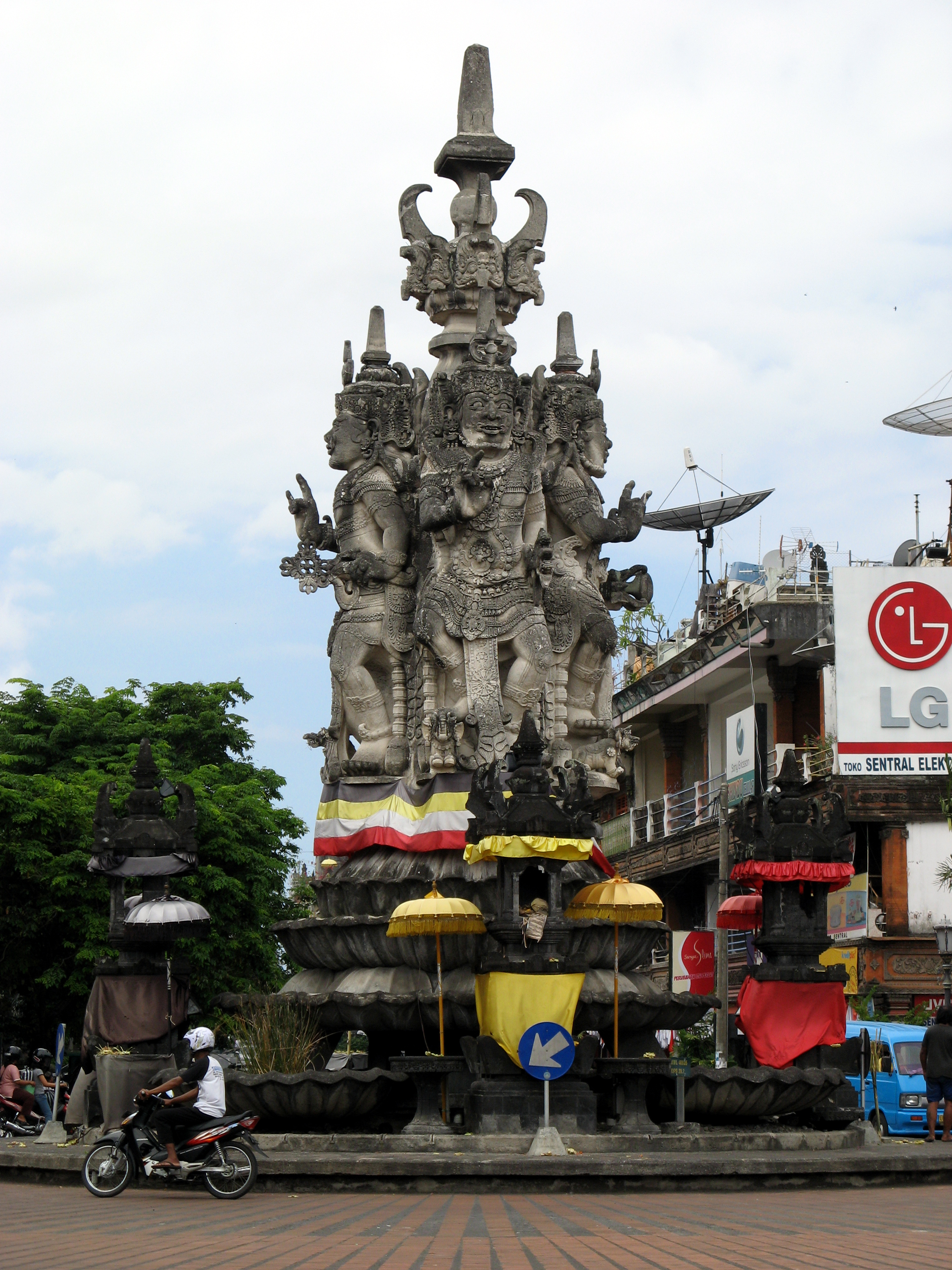 This monumental statue at the crossroads of Semarapura connects the modern and ancient cultures of Indonesia.